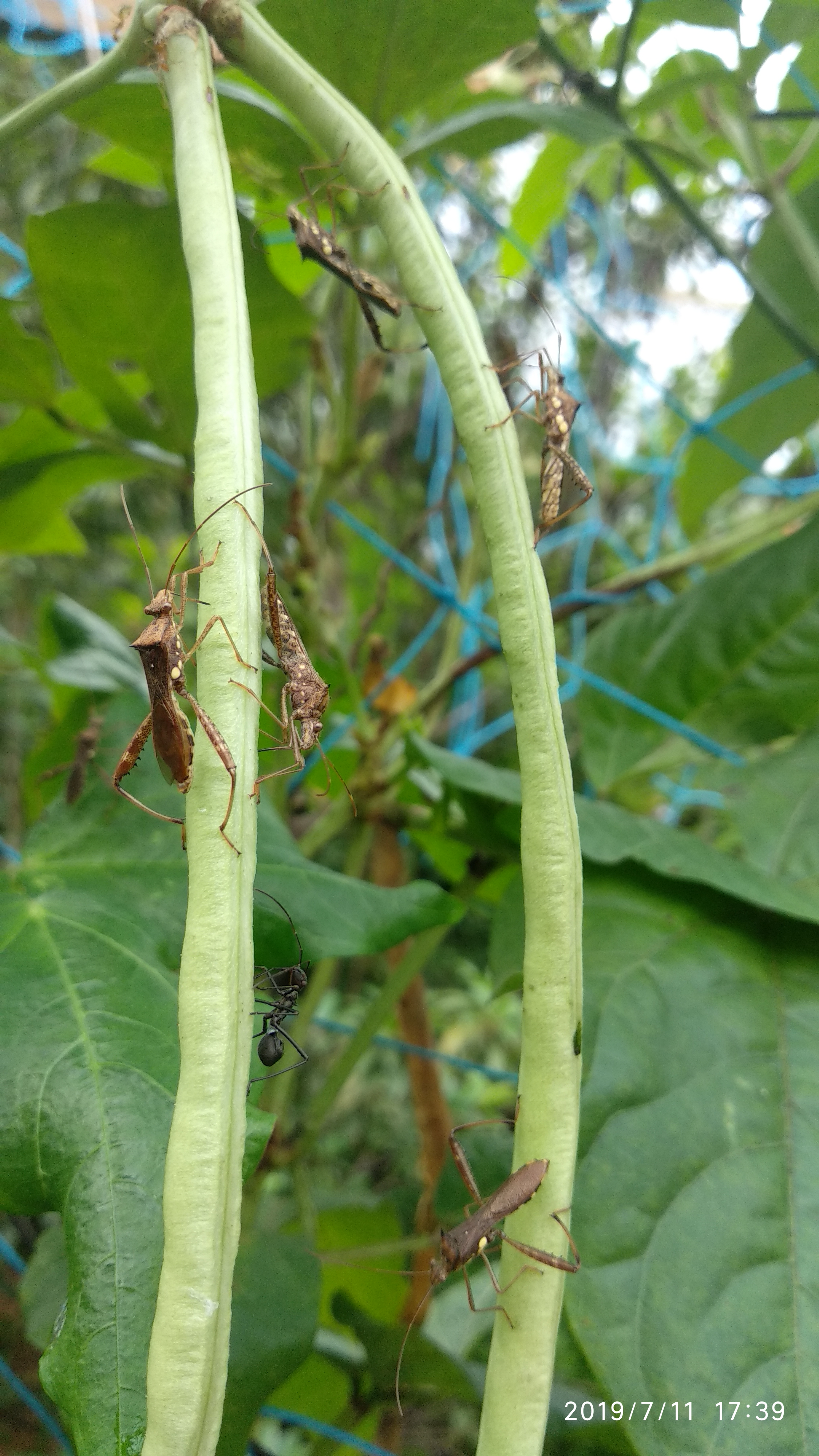 Leptocorisa acuta on pea